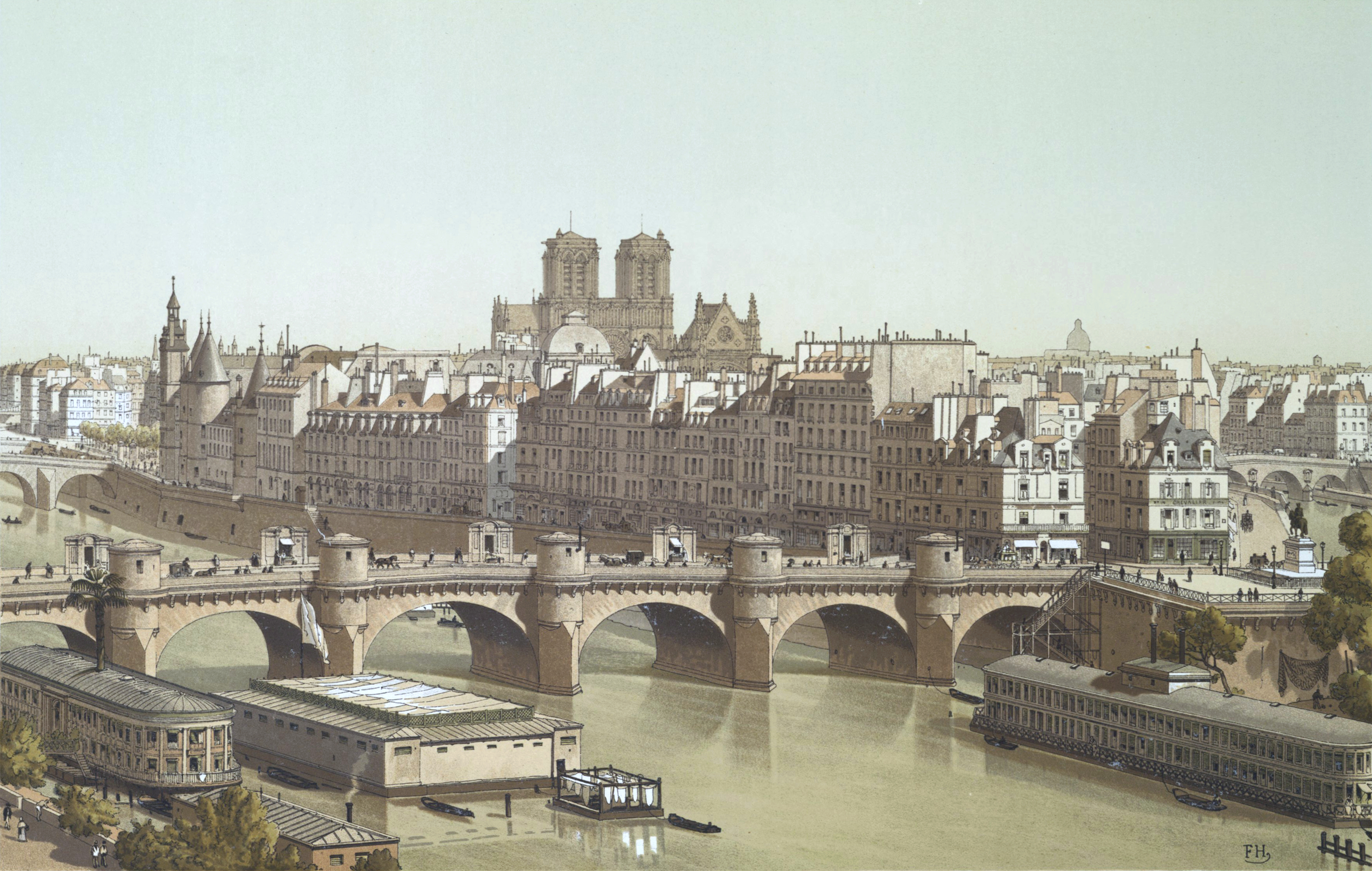 La Cité is the island in the middle of the Seine. The Pont Neuf is currently the oldest bridge in Paris. It was built from 1578 to 1605, and the original structure is still standing. At the time of its construction, the name "neuf" (which means "new") was given to distinguish it from all of the very old bridges in Paris.